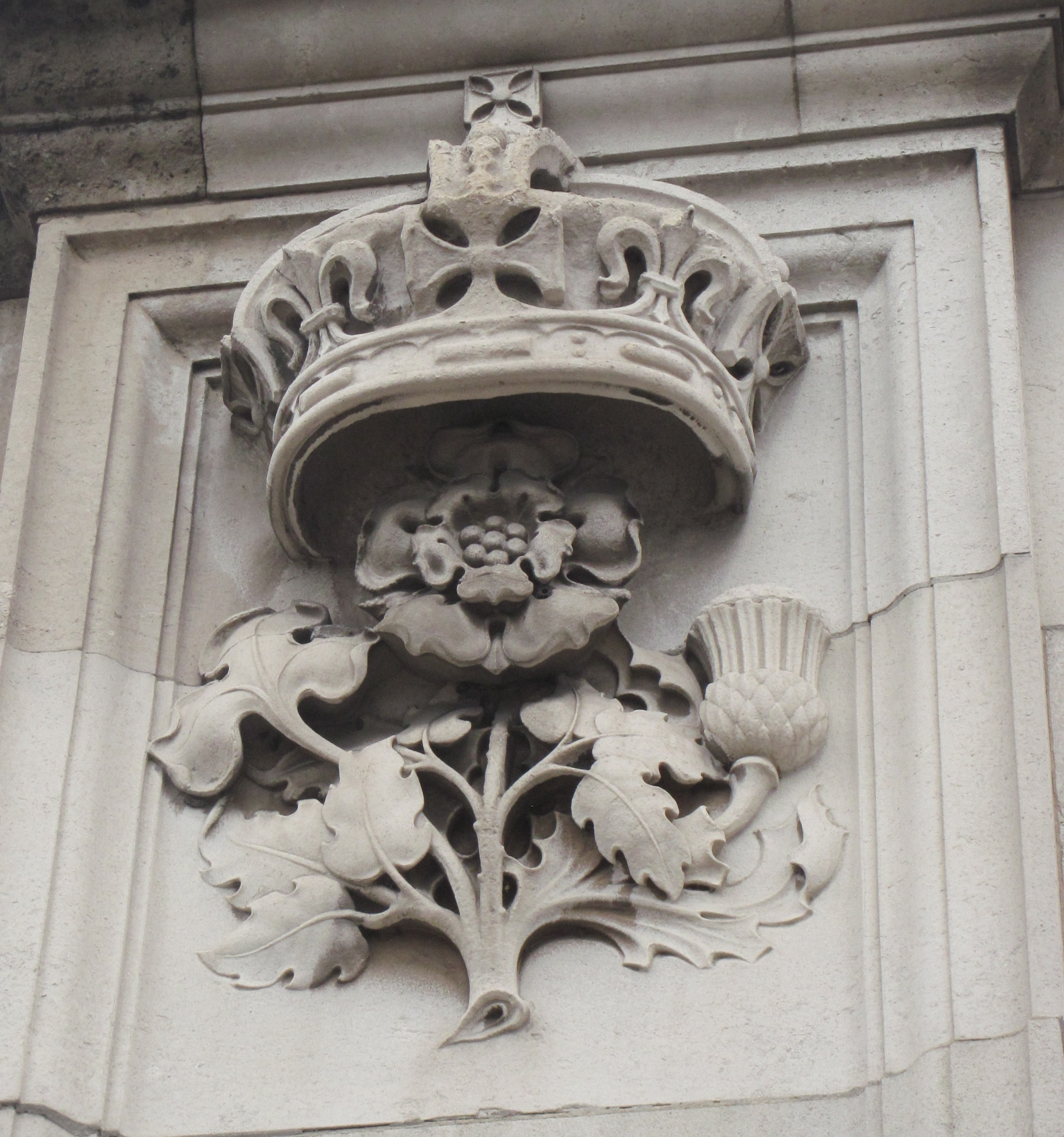 Buckingham Palace, December 2012